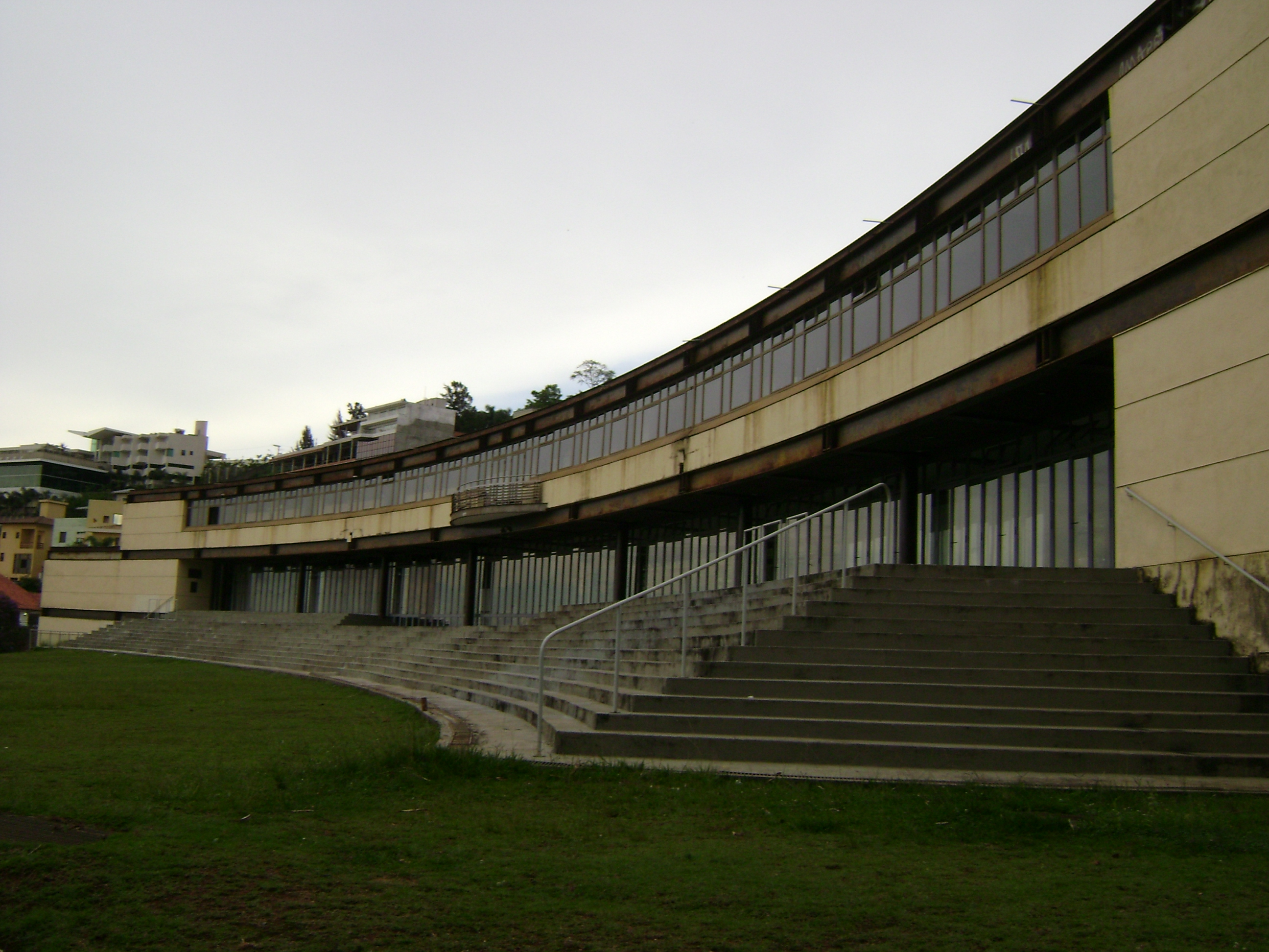 Guignard School, in Belo Horizonte, Brazil.